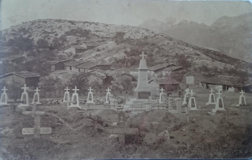 Huma military cemetery